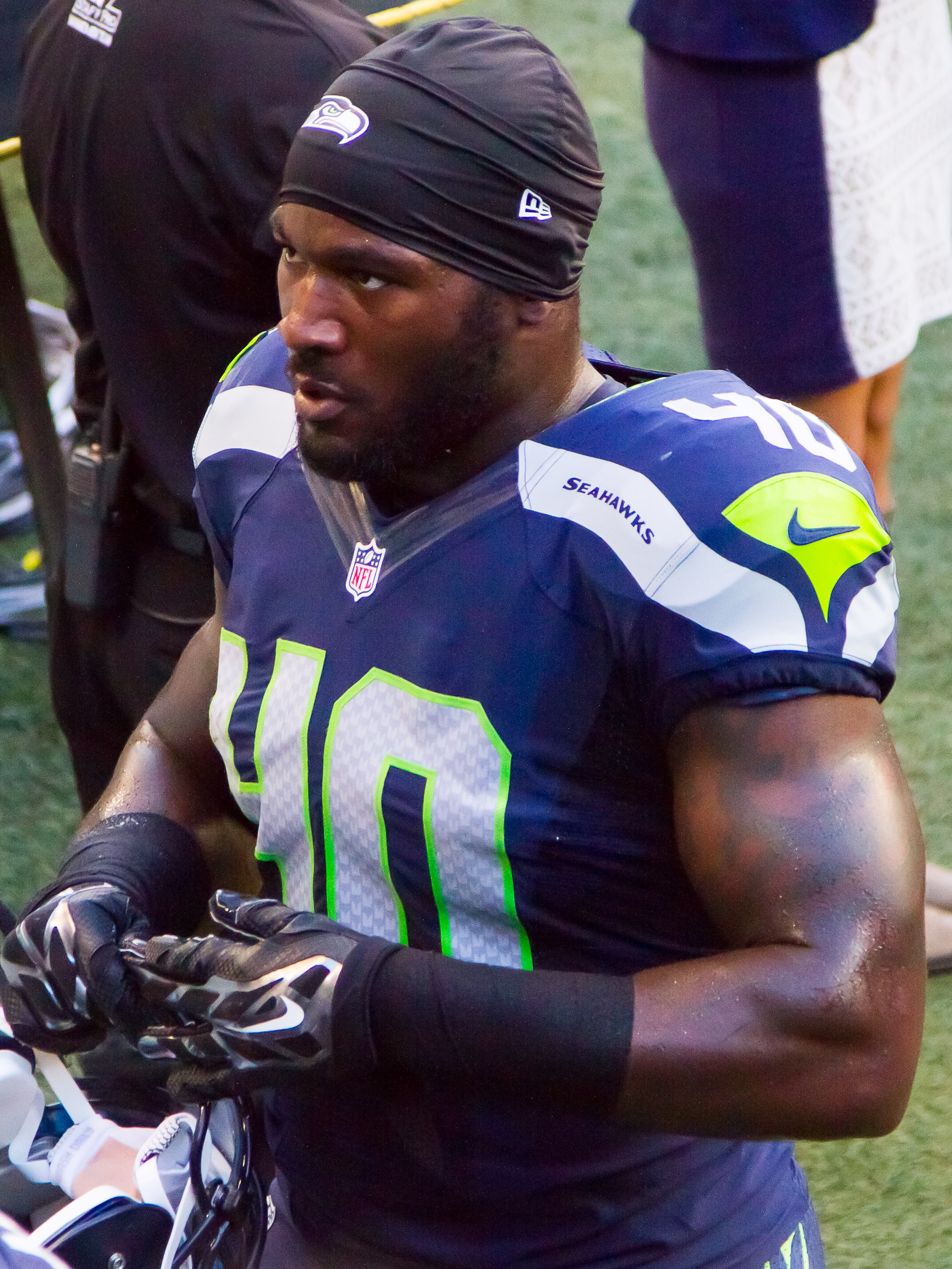 2015 preseason